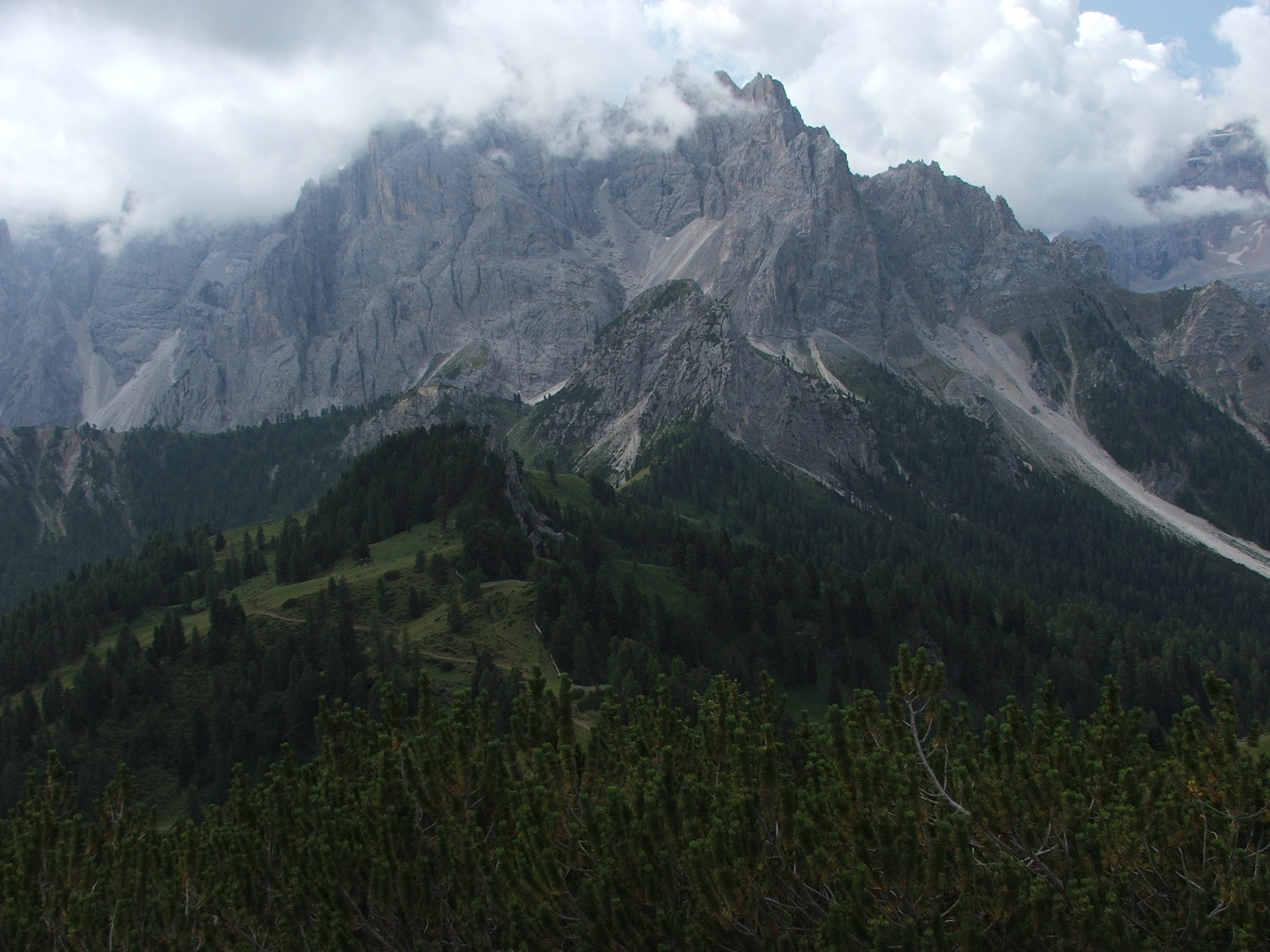 View of the Dürrenstein in the mountains of South Tyrol, Italy